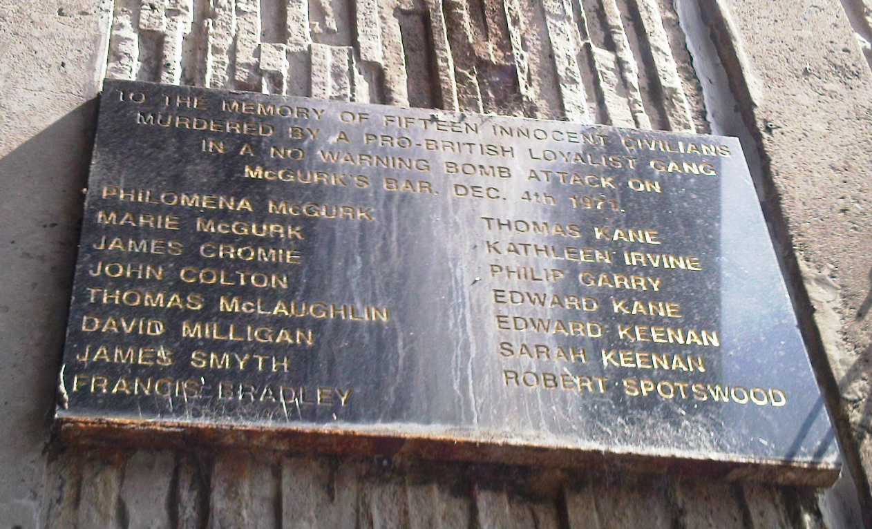 Plaque commemorating the victims of the 1971 McGurk's bar bombing, North Queen Street, Belfast